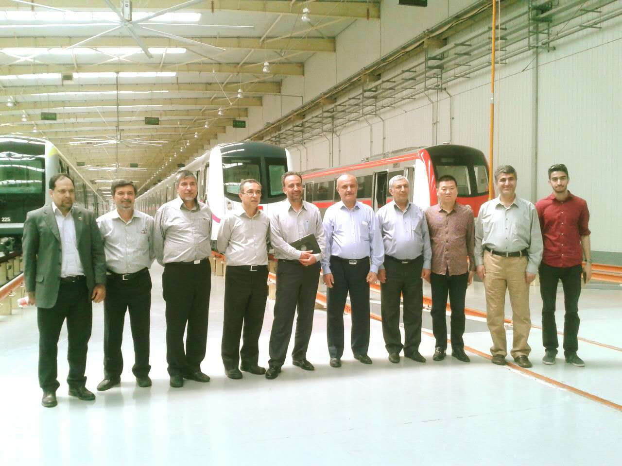 Shiraz Metro Authority hosting the Governor of Fars during its rolling stock purchase negotiations.